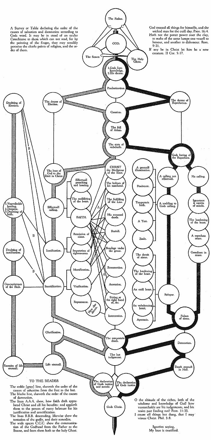 William Perkins predestination chart